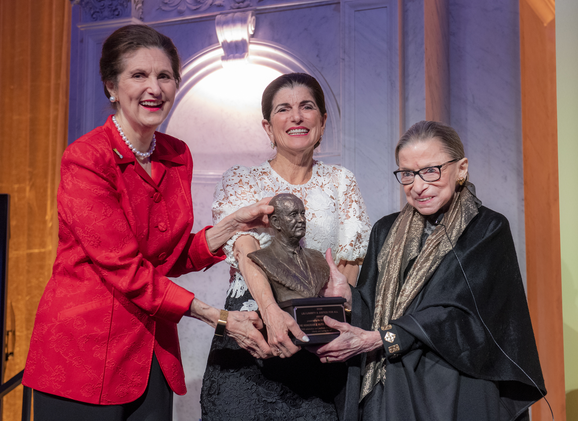 U.S. Supreme Court Justice Ruth Bader Ginsburg, right, receives the LBJ Liberty & Justice for All Award from Lynda Johnson Robb, left, and Luci Baines Johnson at the Library of Congress in Washington, D.C., on Jan. 30, 2020.